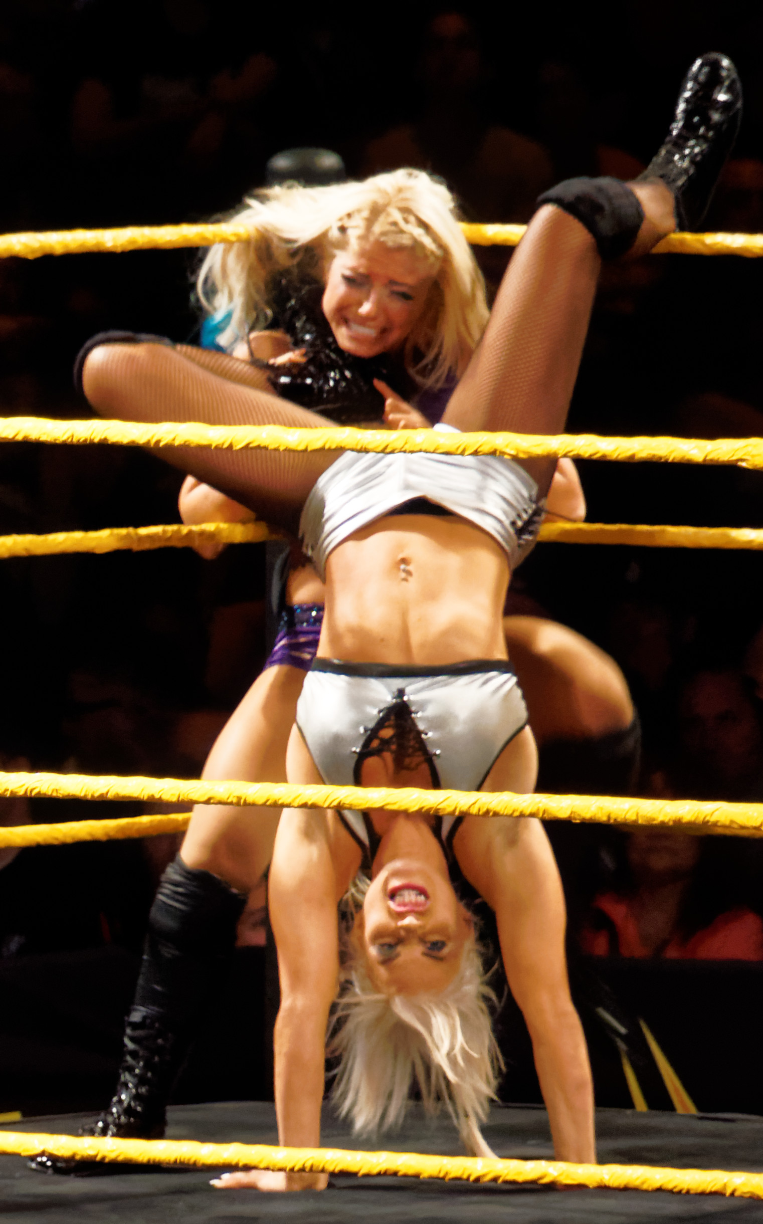 Dana Brooke (front) chokes Alexa Bliss at an NXT event in San Jose, California in March 2015